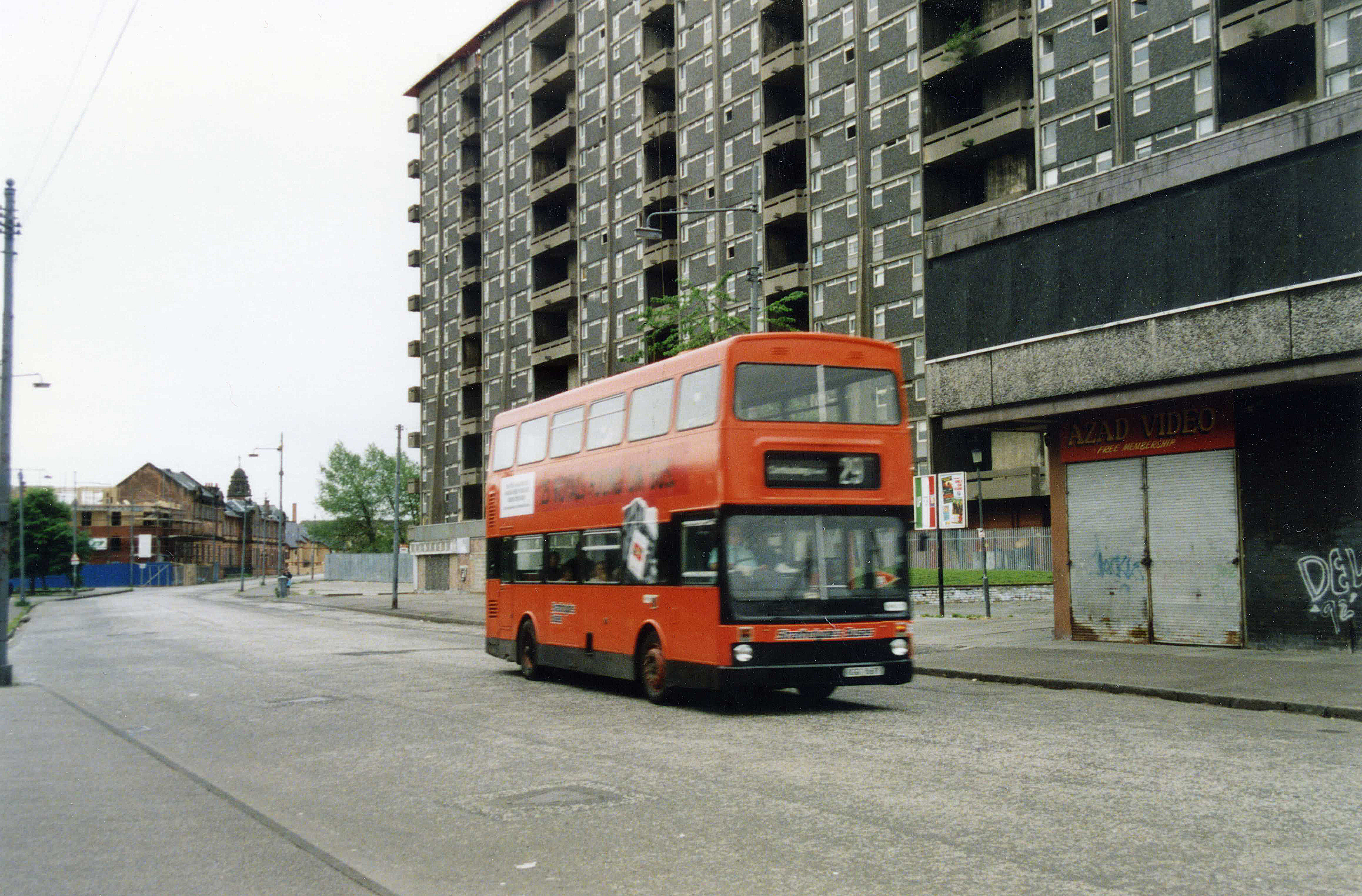 Queen Elizabeth Flats, shortly before they were demolished.